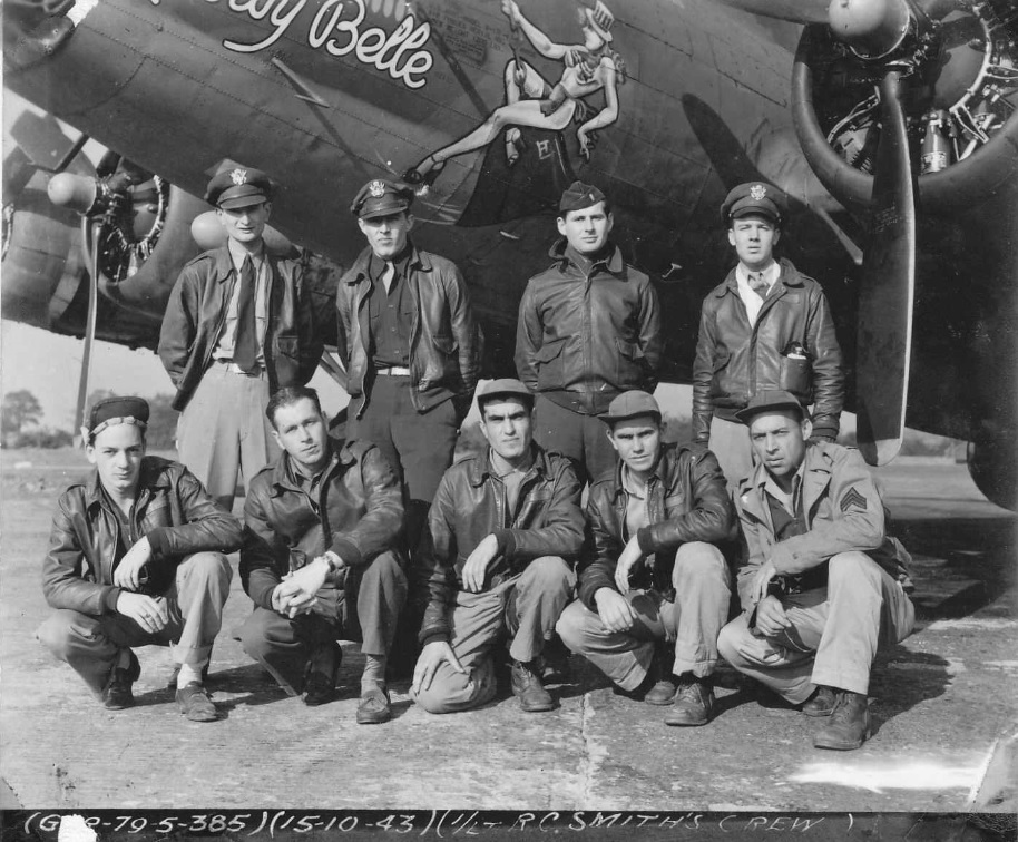 Liberty Belle, #42-30096 - B-17 of the 385th Bombardment Group, 549th Bombardment Squadron (Robert Smith Crew - 15 October 1943)